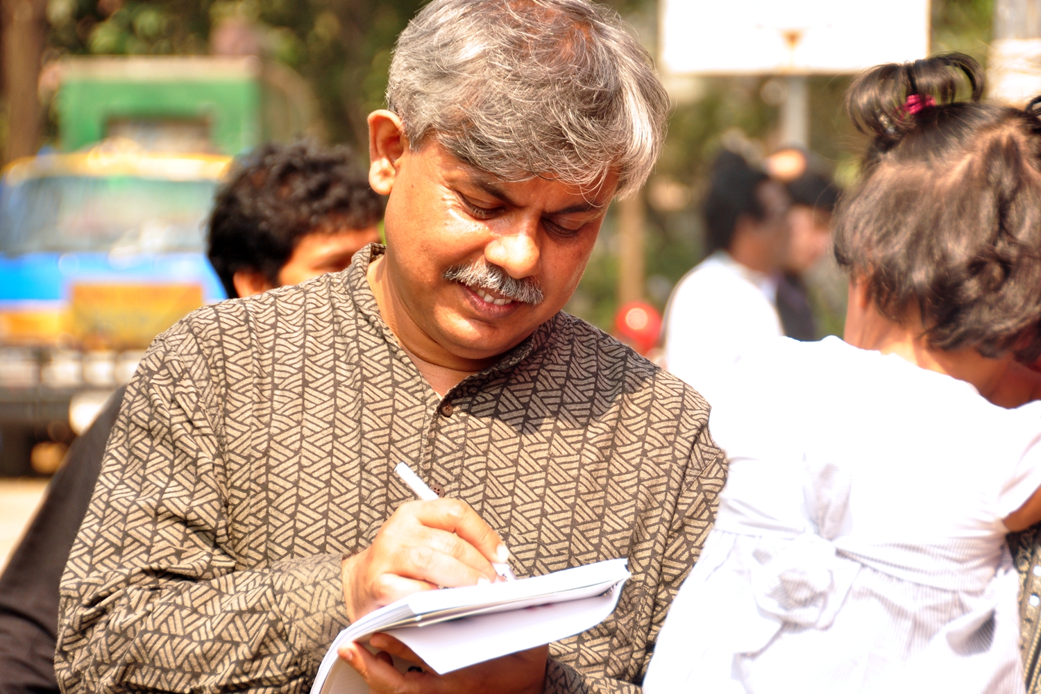 Anisul Hoque giving autograph to his fan at "Borno Mela" (fair of letters) hosted by leading Bangla daily the Prothom Alo at Sultana Kamal Mohila Krira Complex, Dhanmondi, Dhaka.